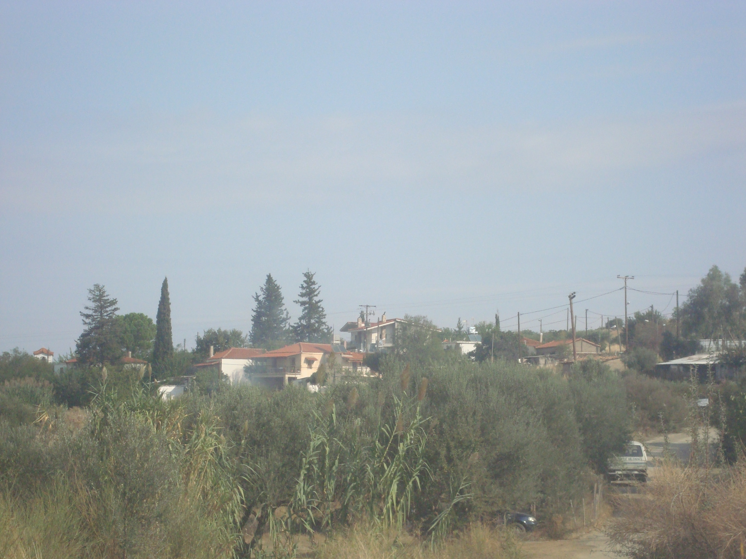 Asteri Achaias village